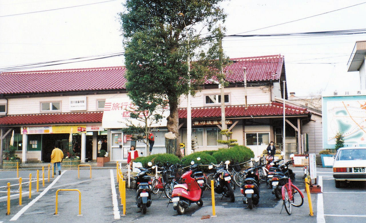 Former building of JR Kyushu Tagawa-Gotoji Station